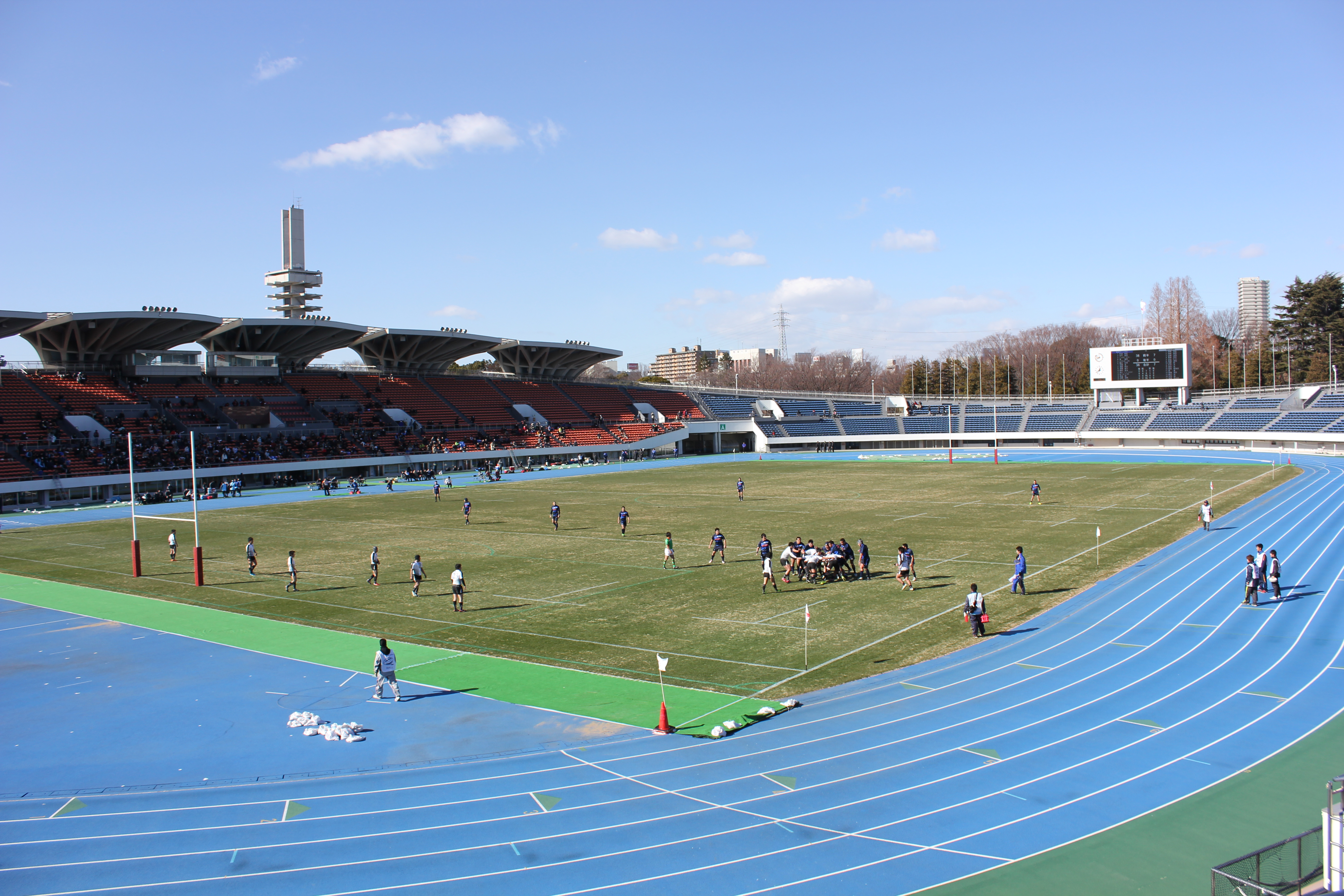 Komazawa Olympic Park General Sports Ground.